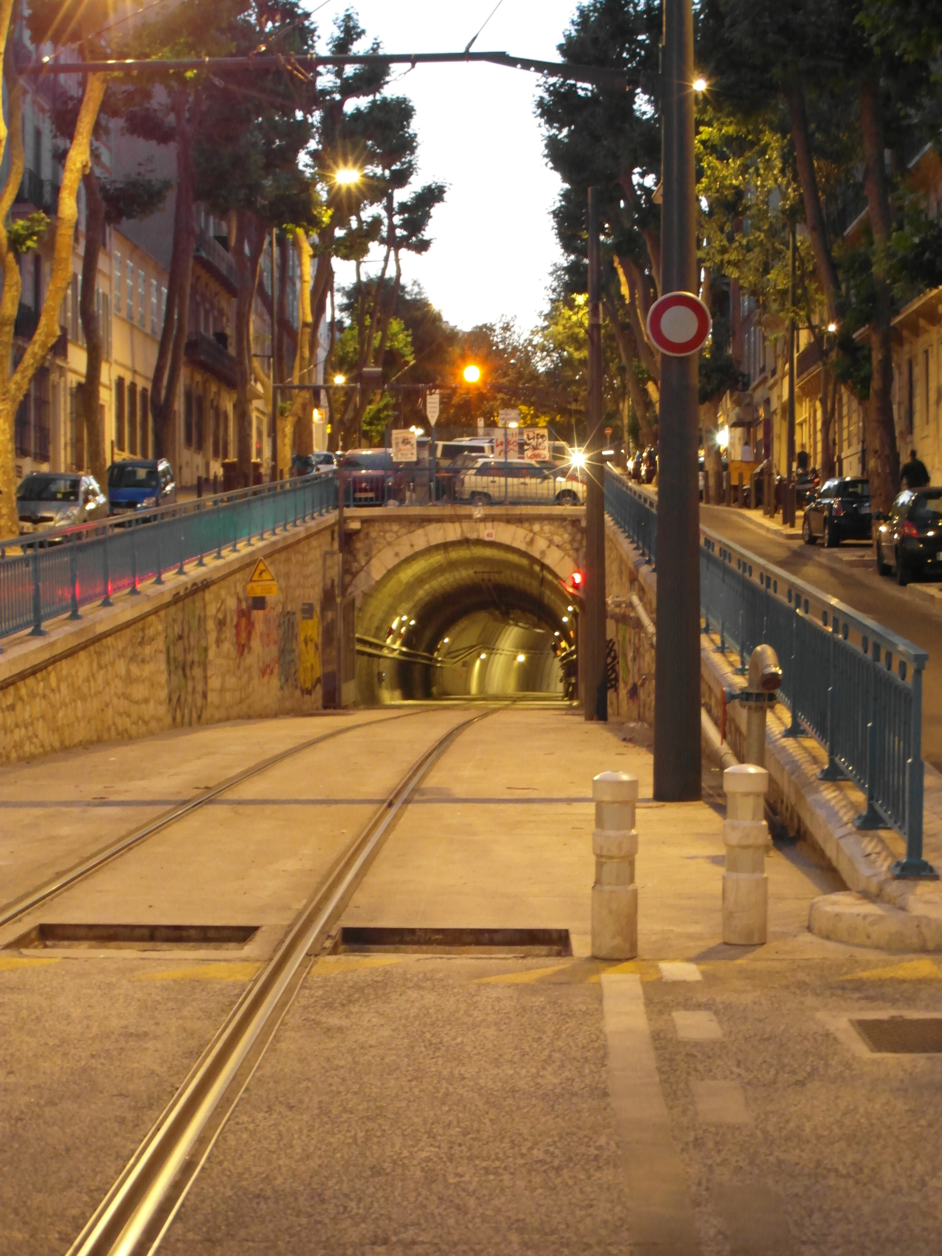 Marseille - Tramway - Boulevard Chave